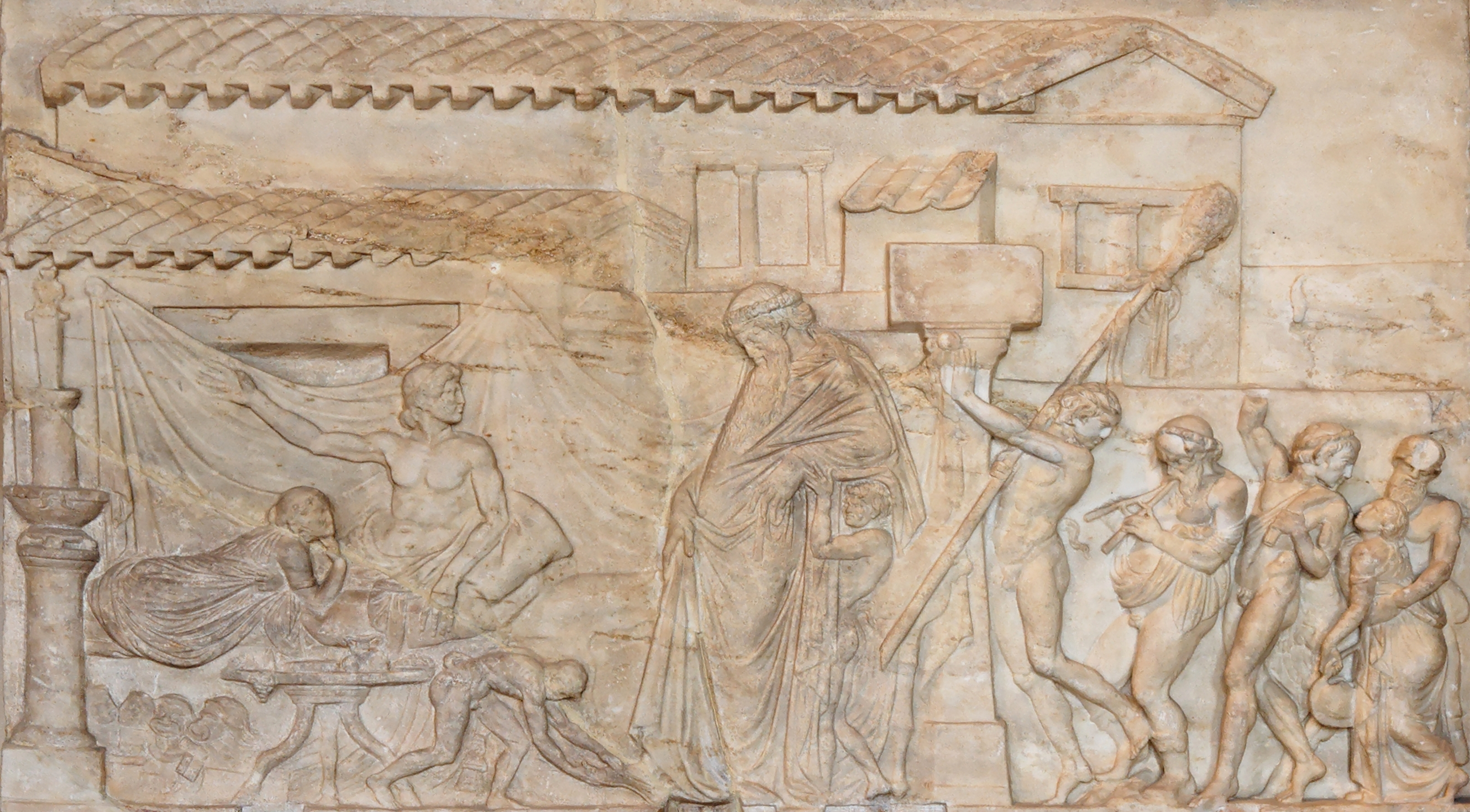 Dramatic poet receiving drunken Dionysos, escorted by maenads and satyrs. Probably a votive relief dedicated by the winner of a theatrical contest. Marble, Roman copy (1st-2nd century CE) of a hellenistic original (late 2nd century BC?), found in Rome.